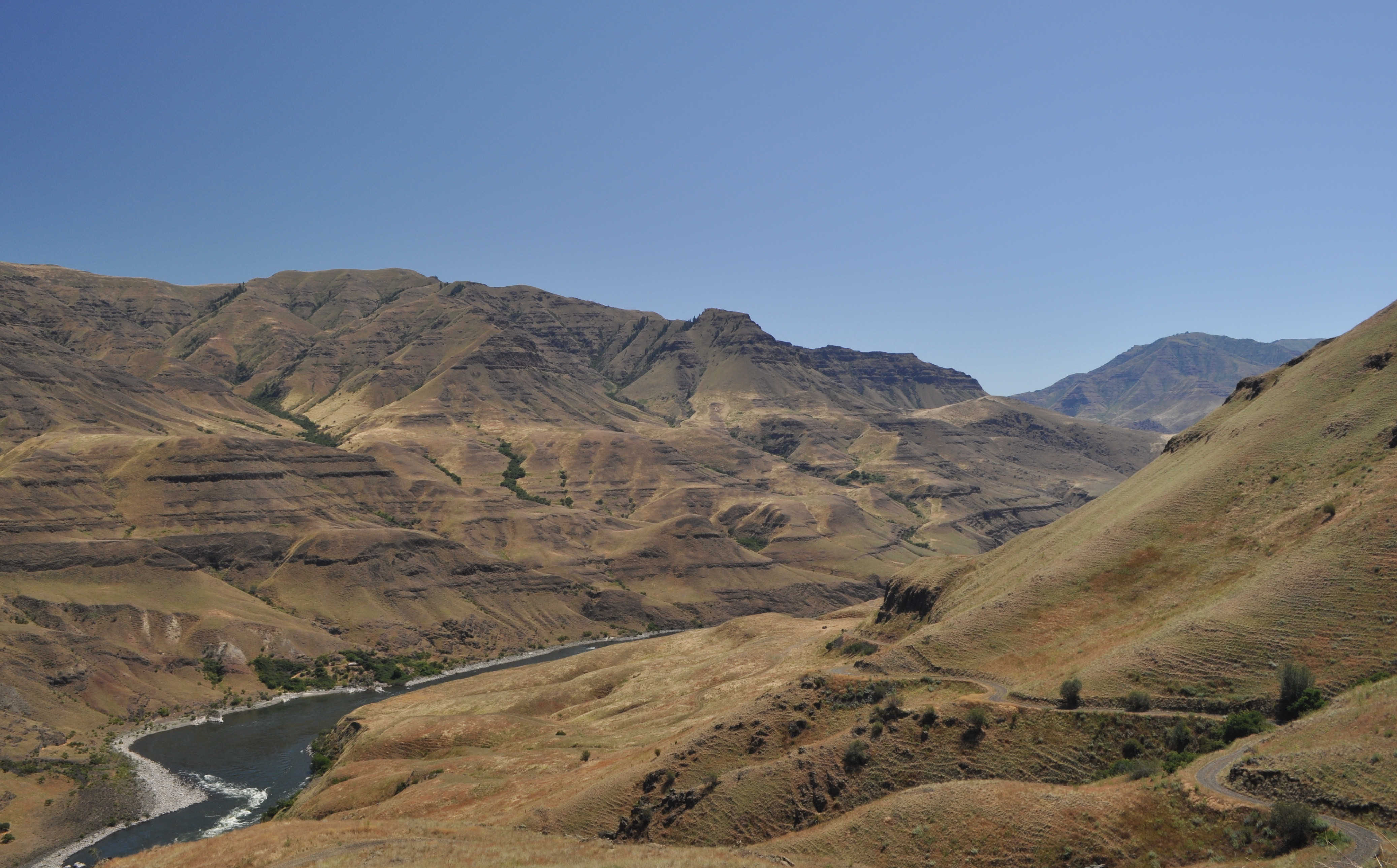 Along the Nez Perce National Historic Trail, Snake River at Dug Bar in the Hells Canyon National Recreation Area. US Forest Service photo, by Roger Peterson